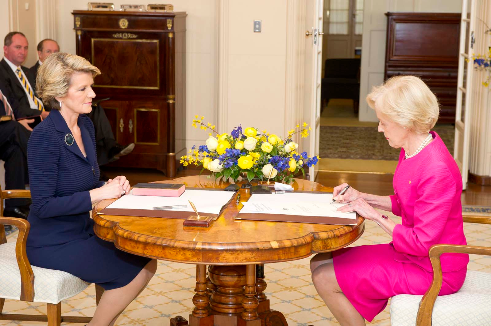 Julie Bishop being sworn in as Foreign Minister by Quentin Bryce